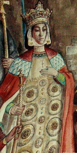 Tsarina Maria Palaiologina Kantakouzene